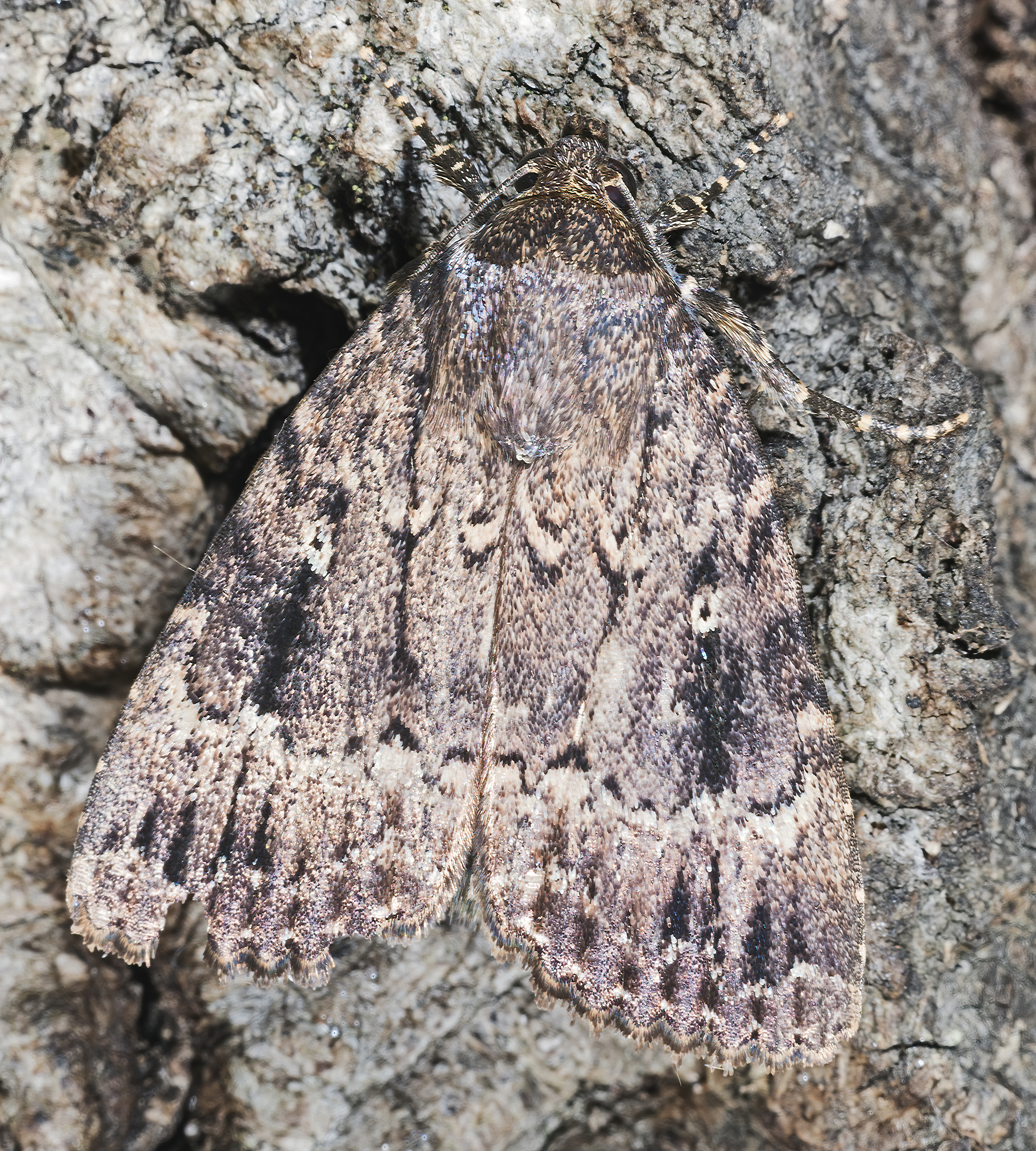 Copper Underwing. Dorsal side, on trunk of oak.